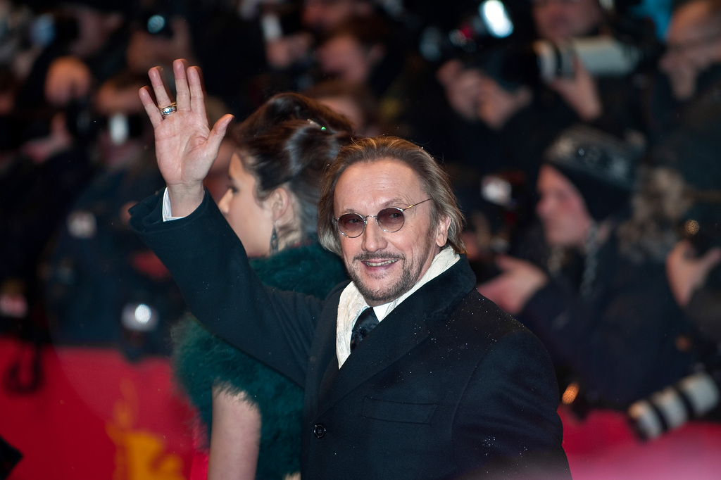 German singer Marius Müller-Westernhagen, arriving at the opening of the 60th Berlin International Film Festival.